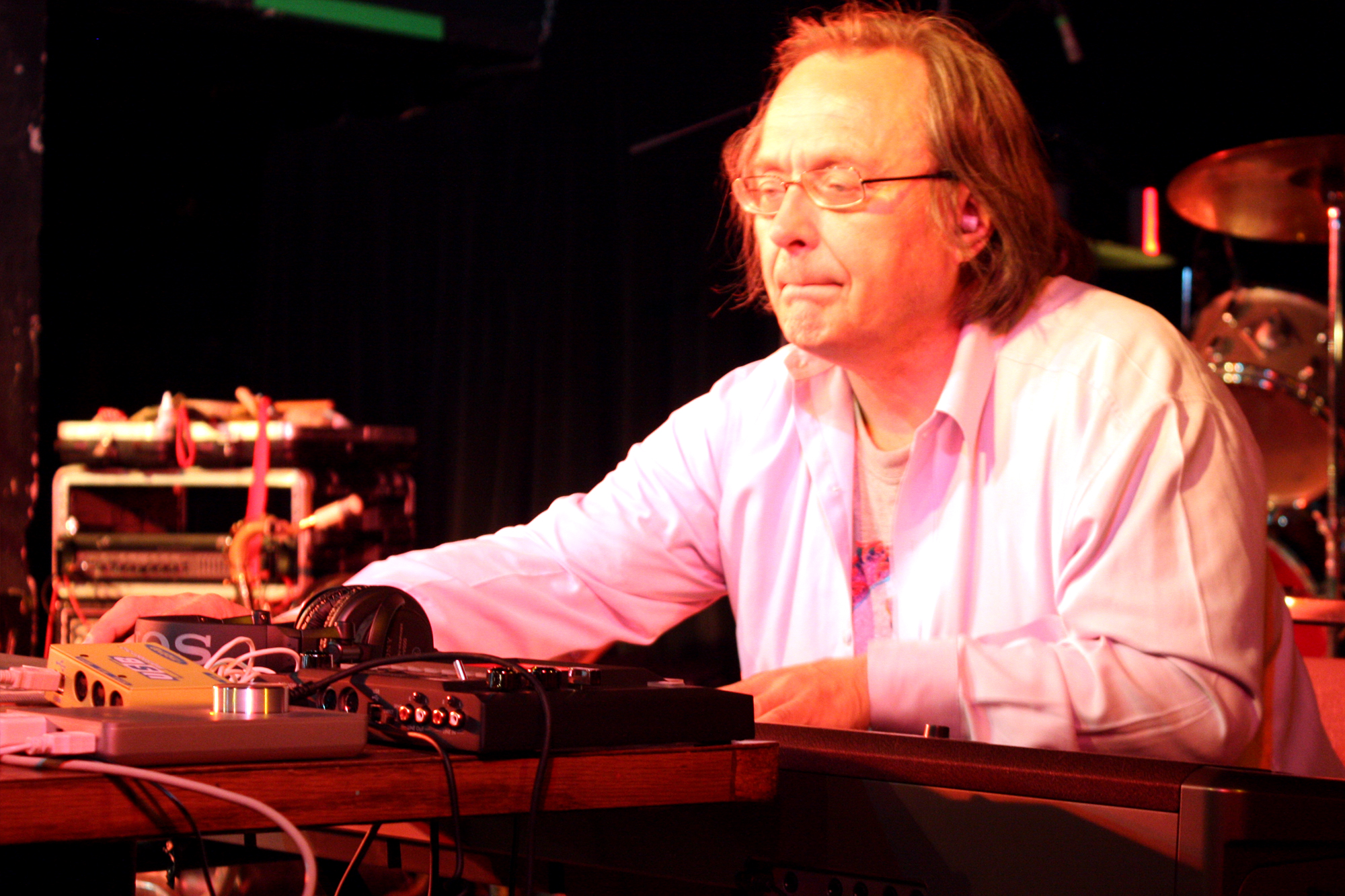 Pekka Airaksinen performance at the 2009 Sonic Circuits festival of experimental music, 27sept09. Black Cat, Washington DC.